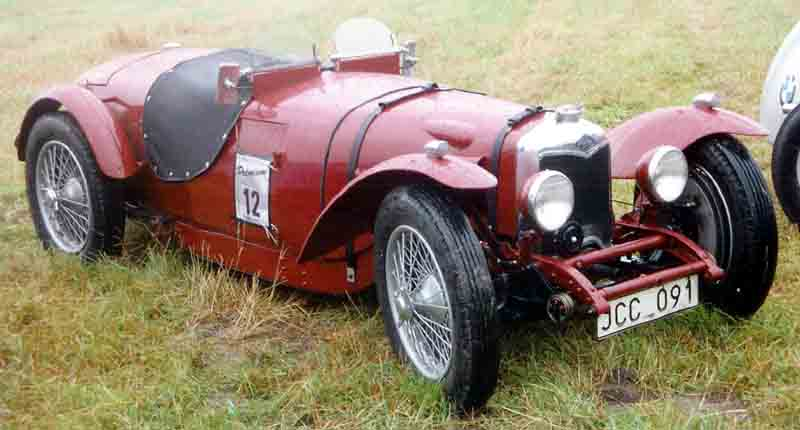 Riley Brooklands 1930